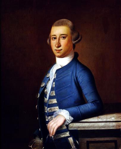 Taken from - due to its age it's in the public domain